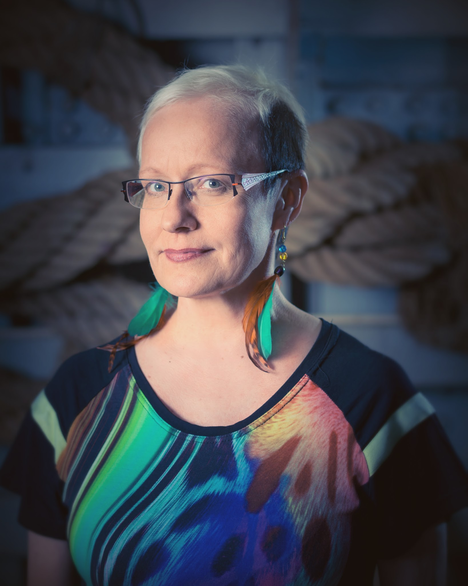 Finnish writer Johanna Sinisalo at Archipelacon 2015.